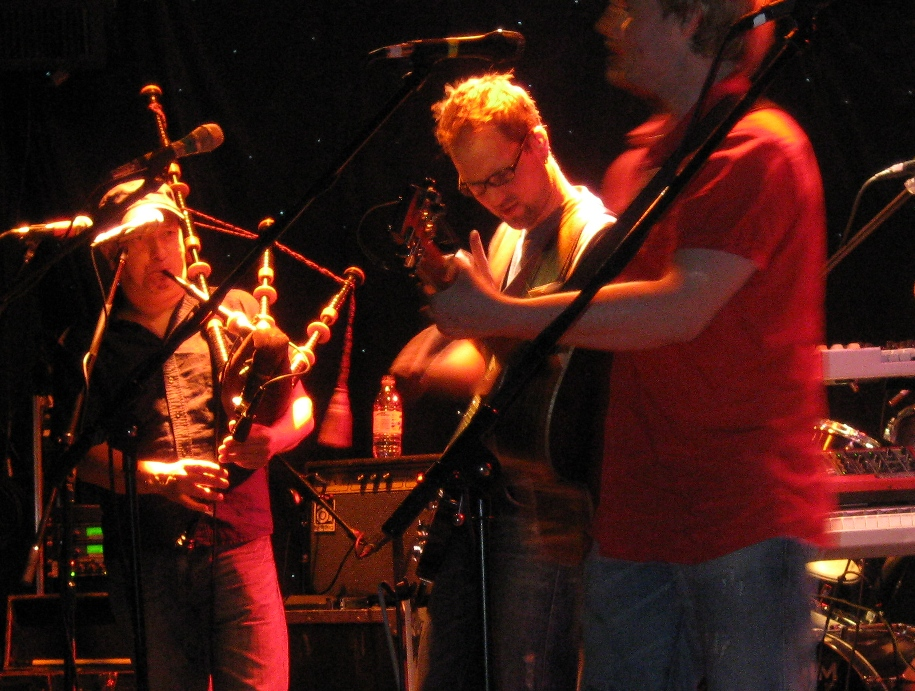 Enter The Haggis performing at Club Cafe on May 14th, 2009. The original photo was taken with a Canon Powershot A1000 IS.